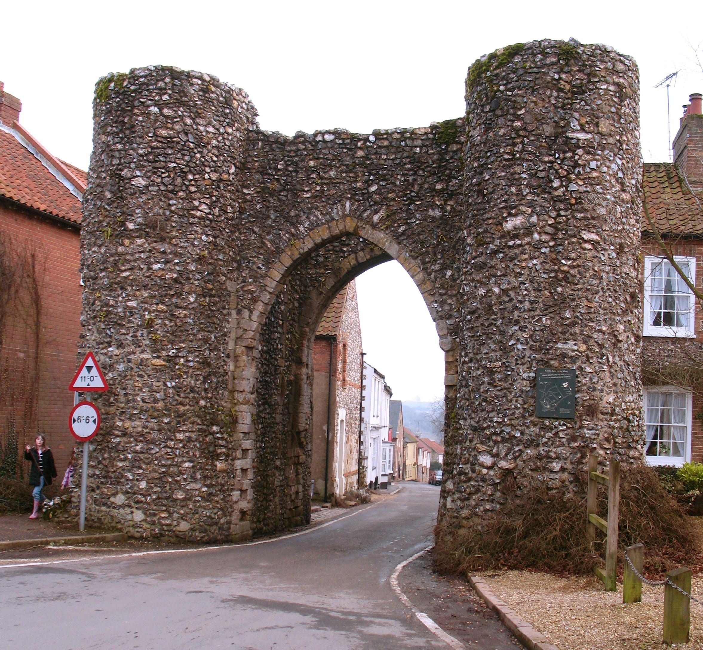 Castle Acre Bailey Gate Standing in the village High Street one would assume that this was once the gateway into the medieval town from the south, but this would be wrong as the original Norman walled settlement was to the south of the gate, stretching down the hillside towards the River Nar.